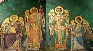 Mary Brewster Hazelton, Wellesley Hills Congregational Church murals, 1912